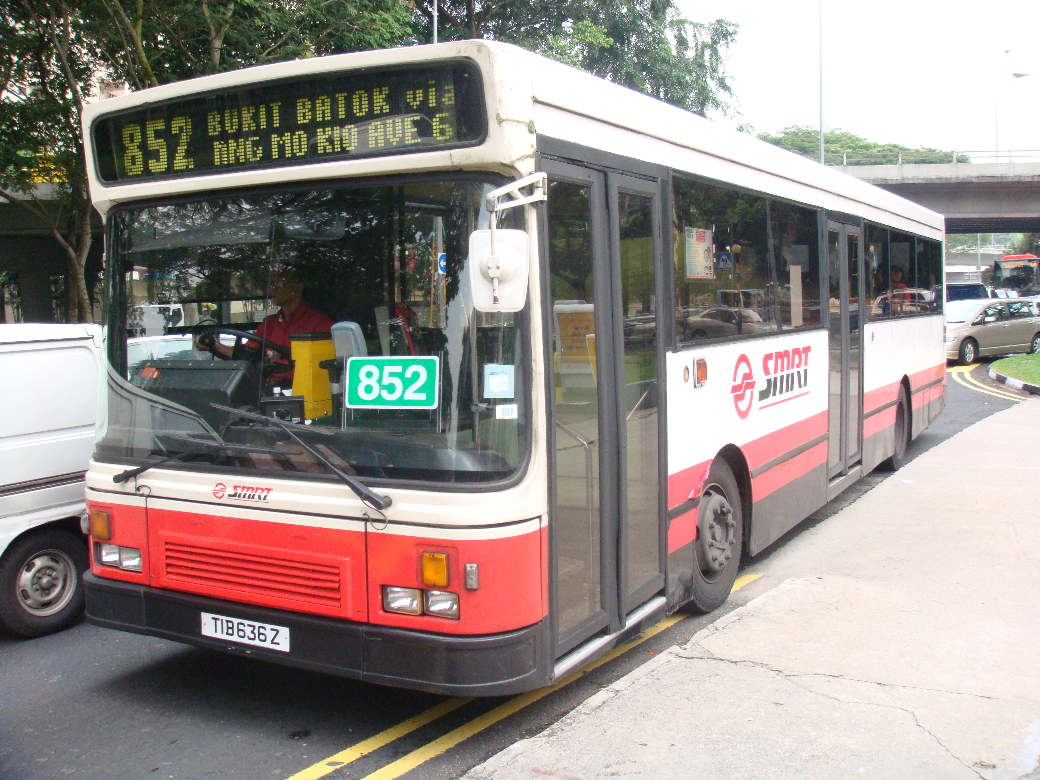 Scania L113CRL, Walter Alexander Strider bodied (TIB636Z, built 1996, SMRT Livery), SMRT Buses (Singapore).